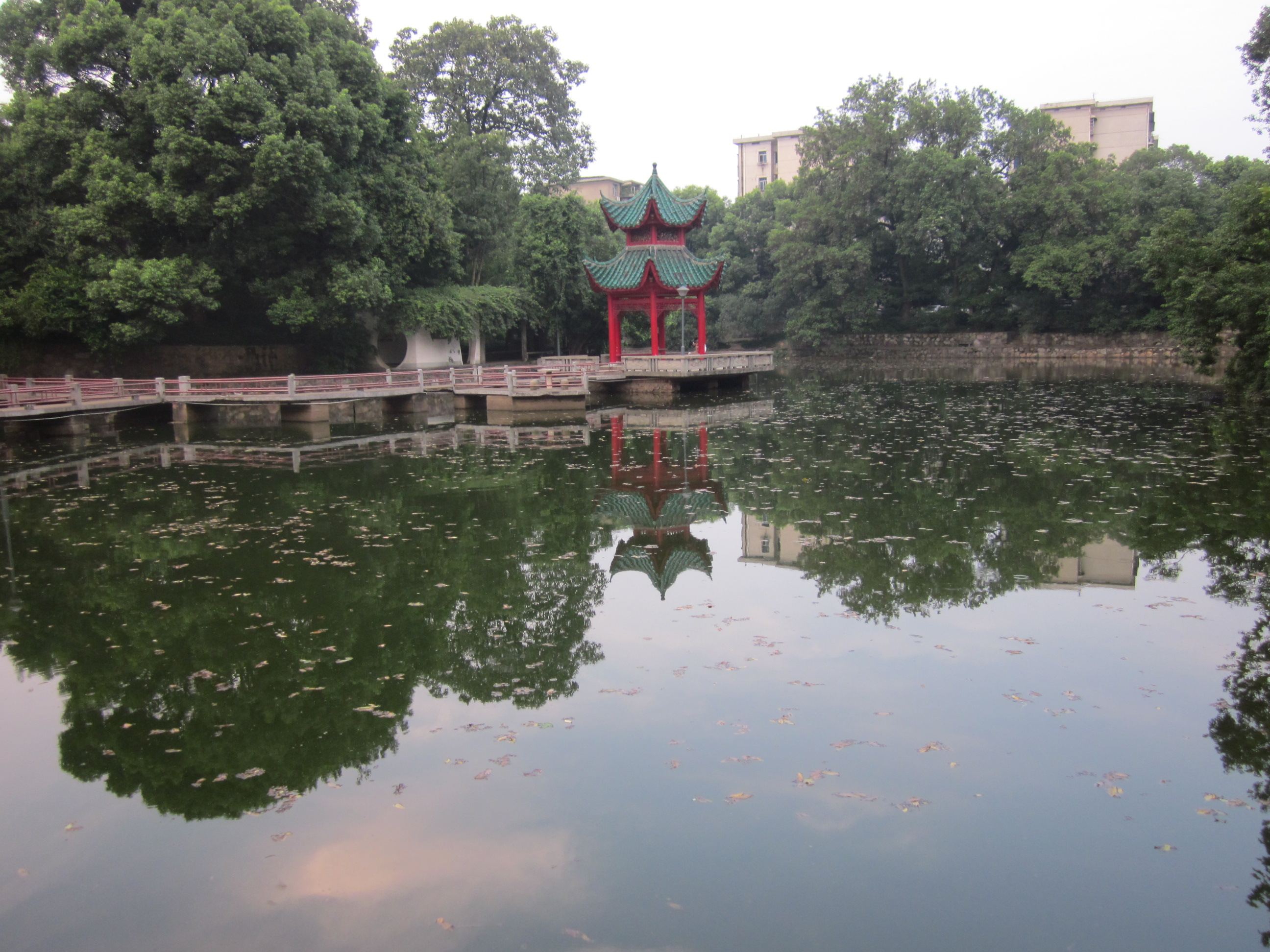 Central South University (CSU) located in Changsha, a historic and cultural city in Hunan province, central south of the People's Republic of China.